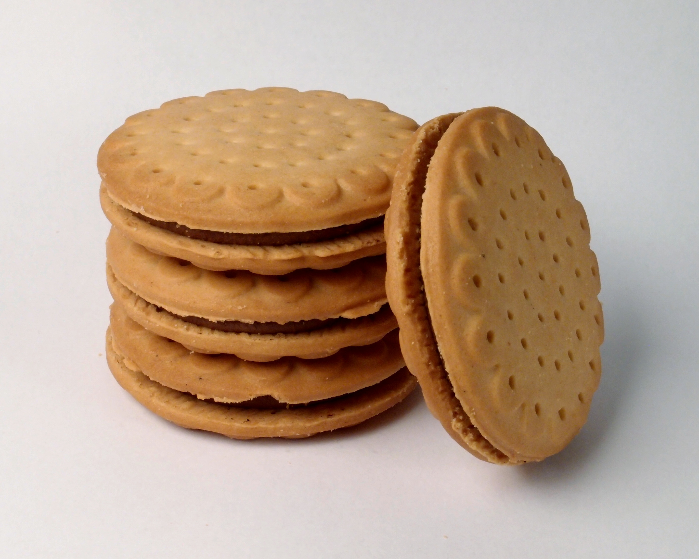 A stack of sandwich cookies.